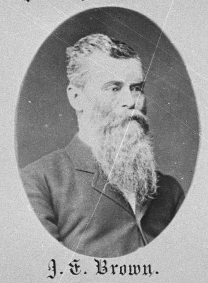 Photographic copy of a montage of photographic portraits depicting members of the 1882 House of Representatives. All portraits taken by William Henshaw Clarke of Wellington. Copy of montage made by S P Andrew Ltd.